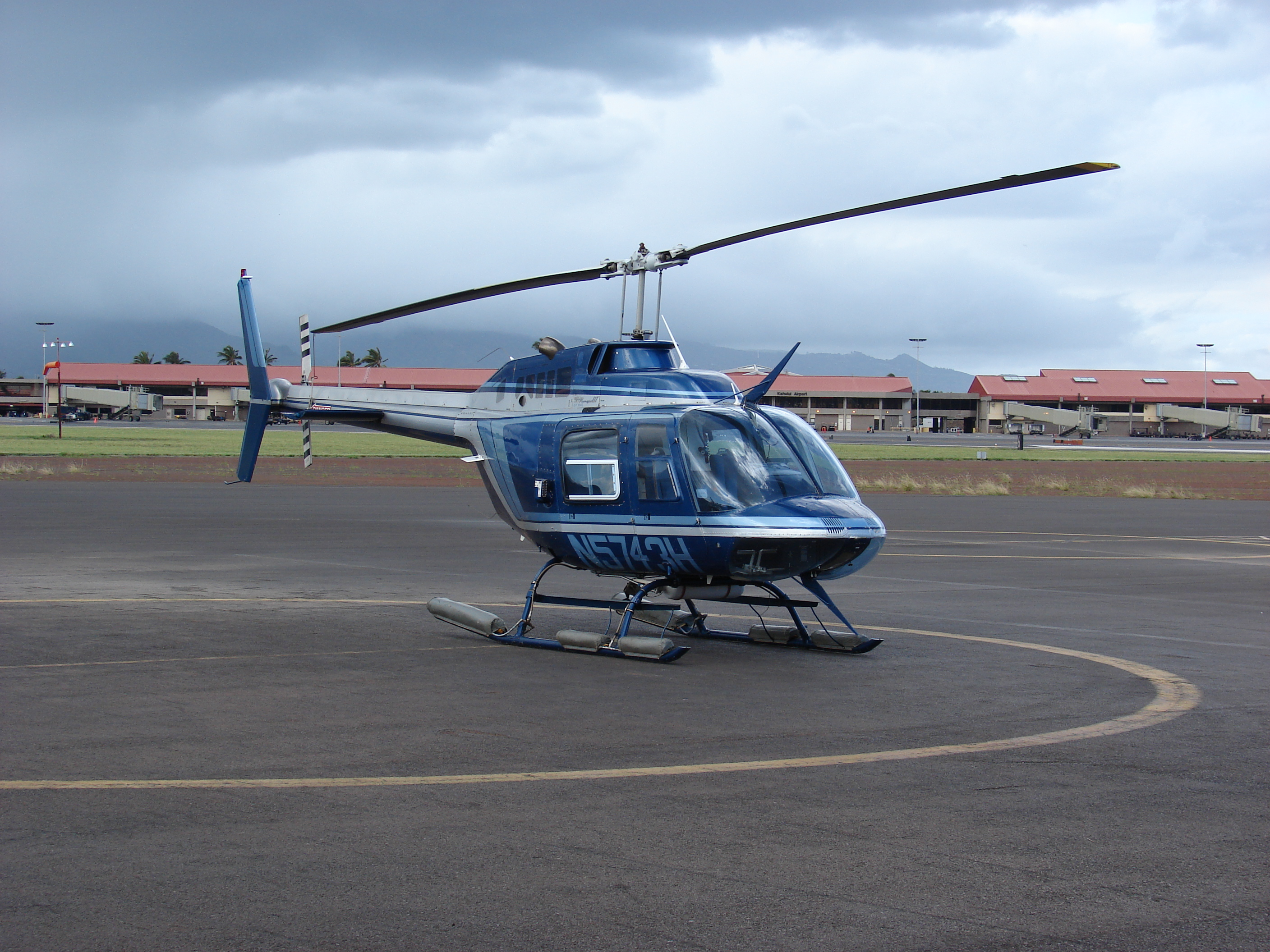 Bell 206B helicopter (N5743H) at Kahului Heliport, Kahuli Airport in the background. Location: Maui, Kahului